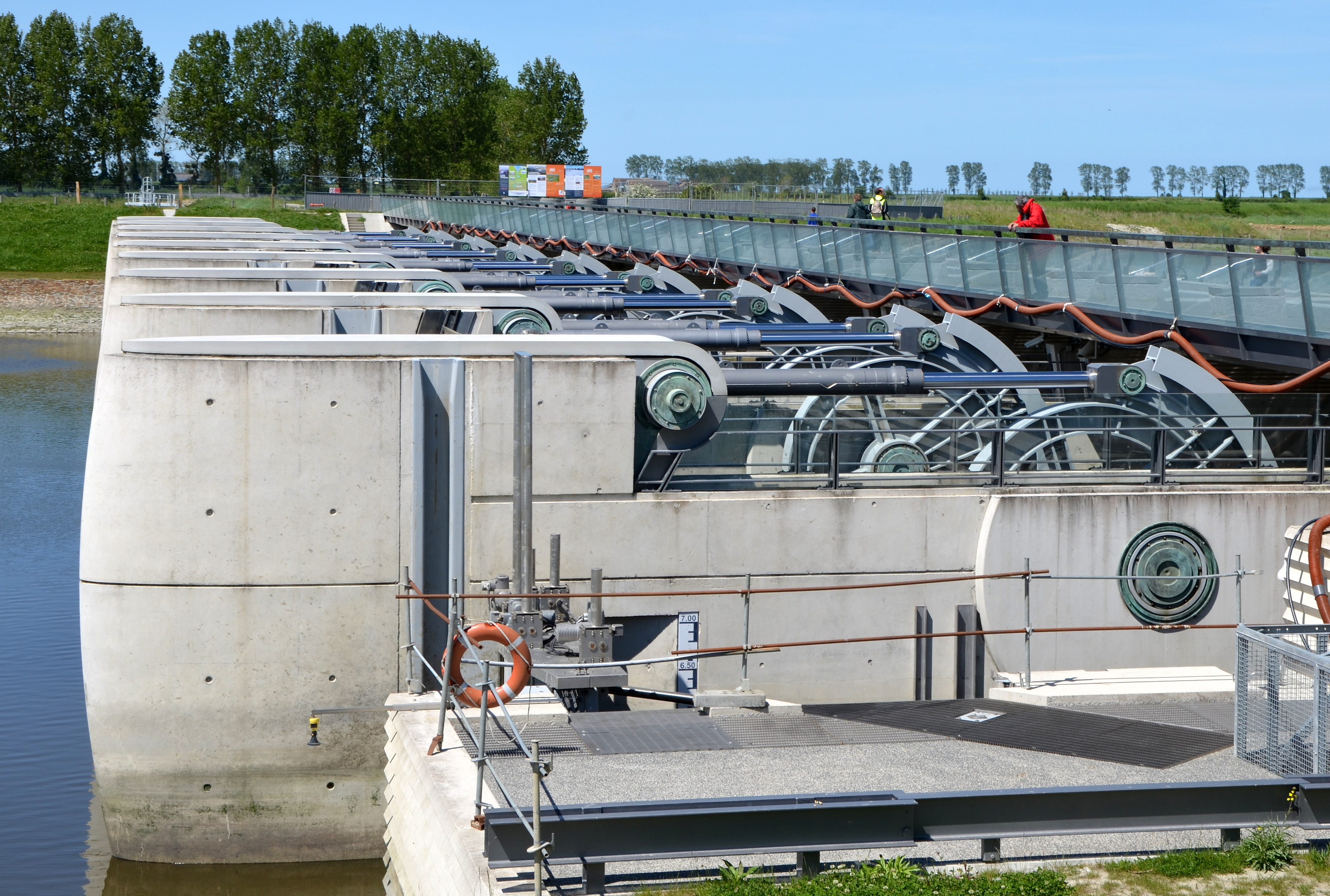 Dam on the Couesnon use to flush the sediments of the baie du Mont St Michel, France